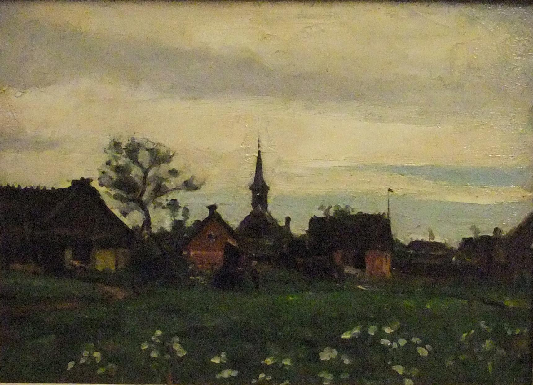 Painting by Danish artist Karl Madsen of Horbæk with church, 1885.